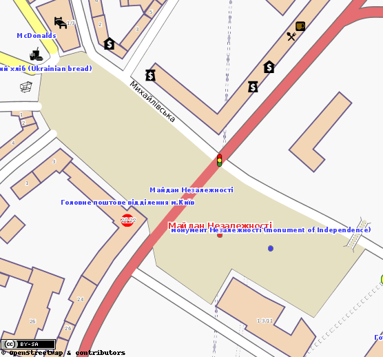 Map of Maidan Nezalezhnosti (Independence Square) — the central square of Kiev, the capital city of Ukraine. Center of Euromaidan in Kiev.